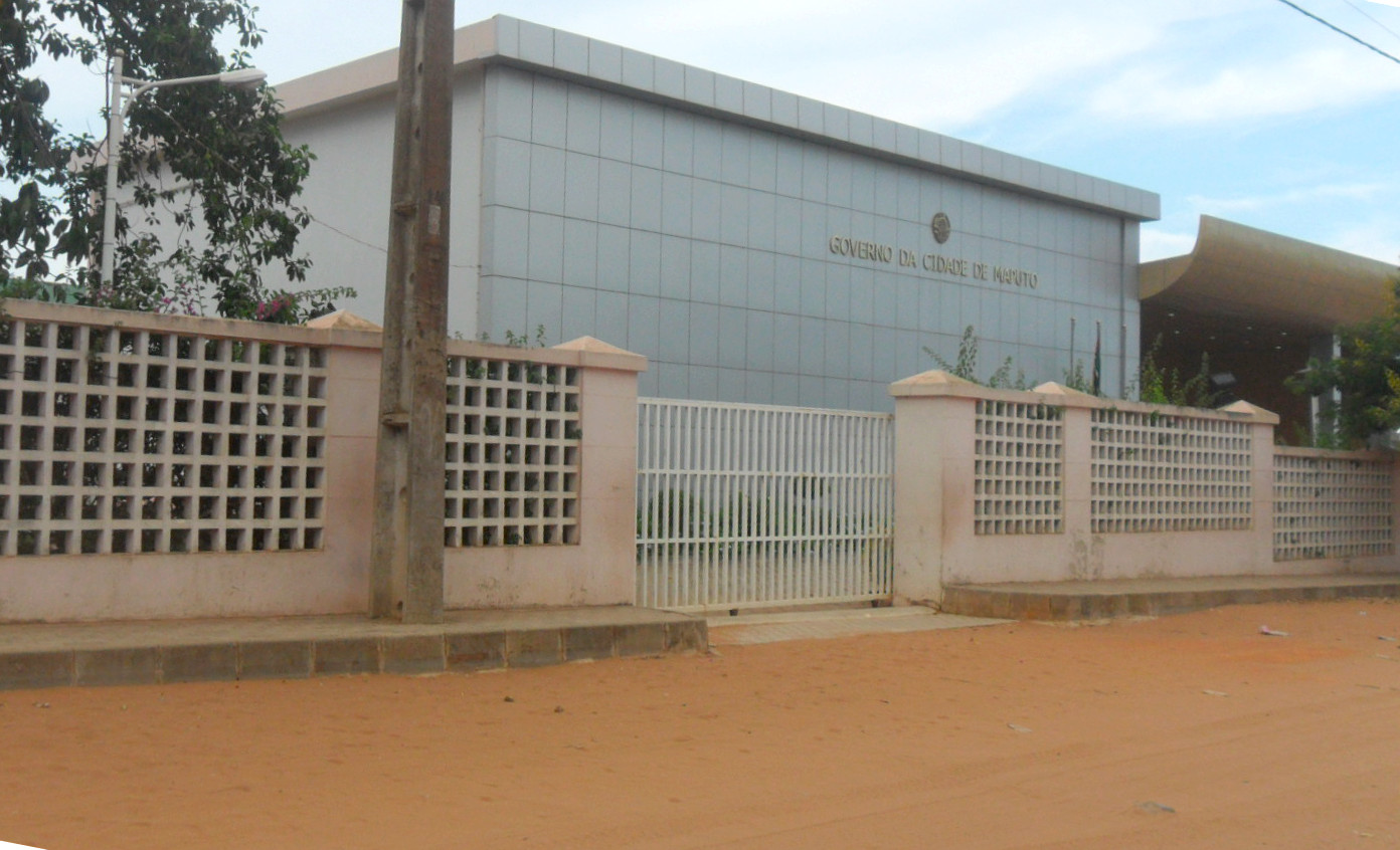 Building of the City of Maputo Provincial Government